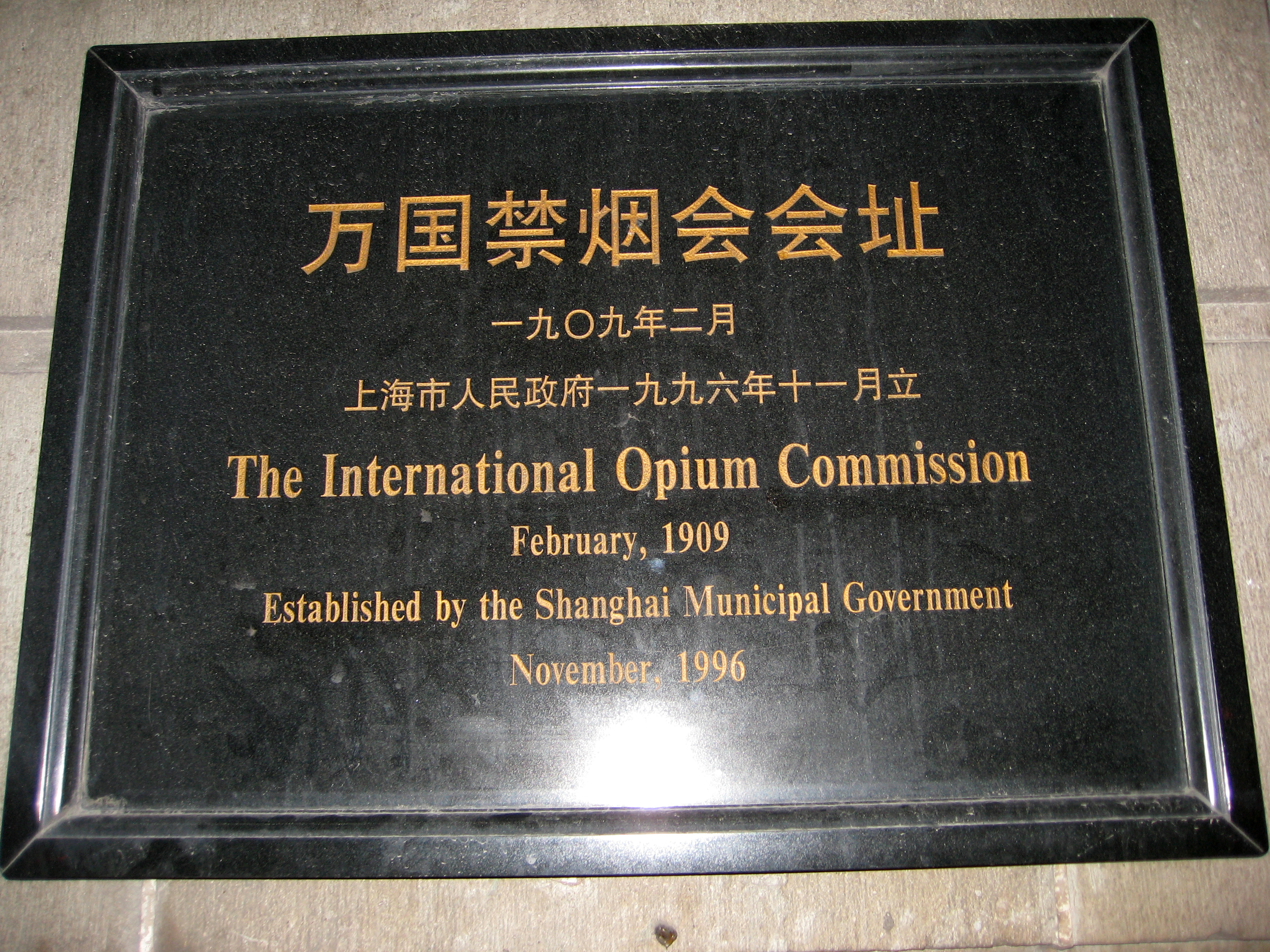 A plaque which commemorates International Opium Commission, outside of the Peace Hotel on the Bund.